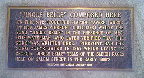 Plaque commemorating the authorship of the song "Jingle Bells" by James Pierpont at the Simpson Tavern (now 19 High Street) in Medford, Massachusetts. Plaque provided by the Medford Historical Society.